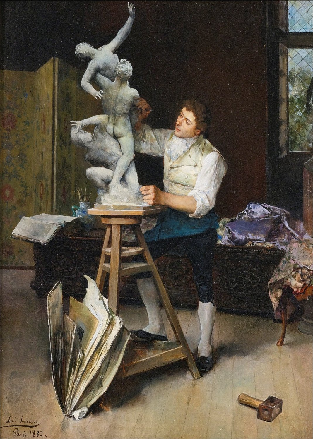 The Sculptor by Luis Jiménez Y Aranda, 1882, oil on panel, 32 by 23 cm.